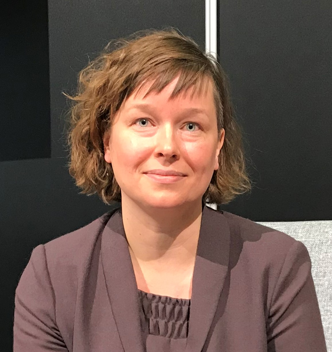 Finnish writer Pauliina Vanhatalo at Helsinki Book Fair 2018